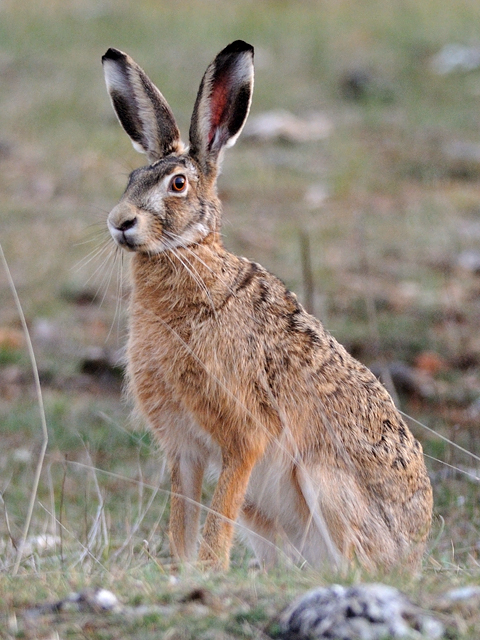 Lepus europaeus (Causse méjean, Lozère - France)